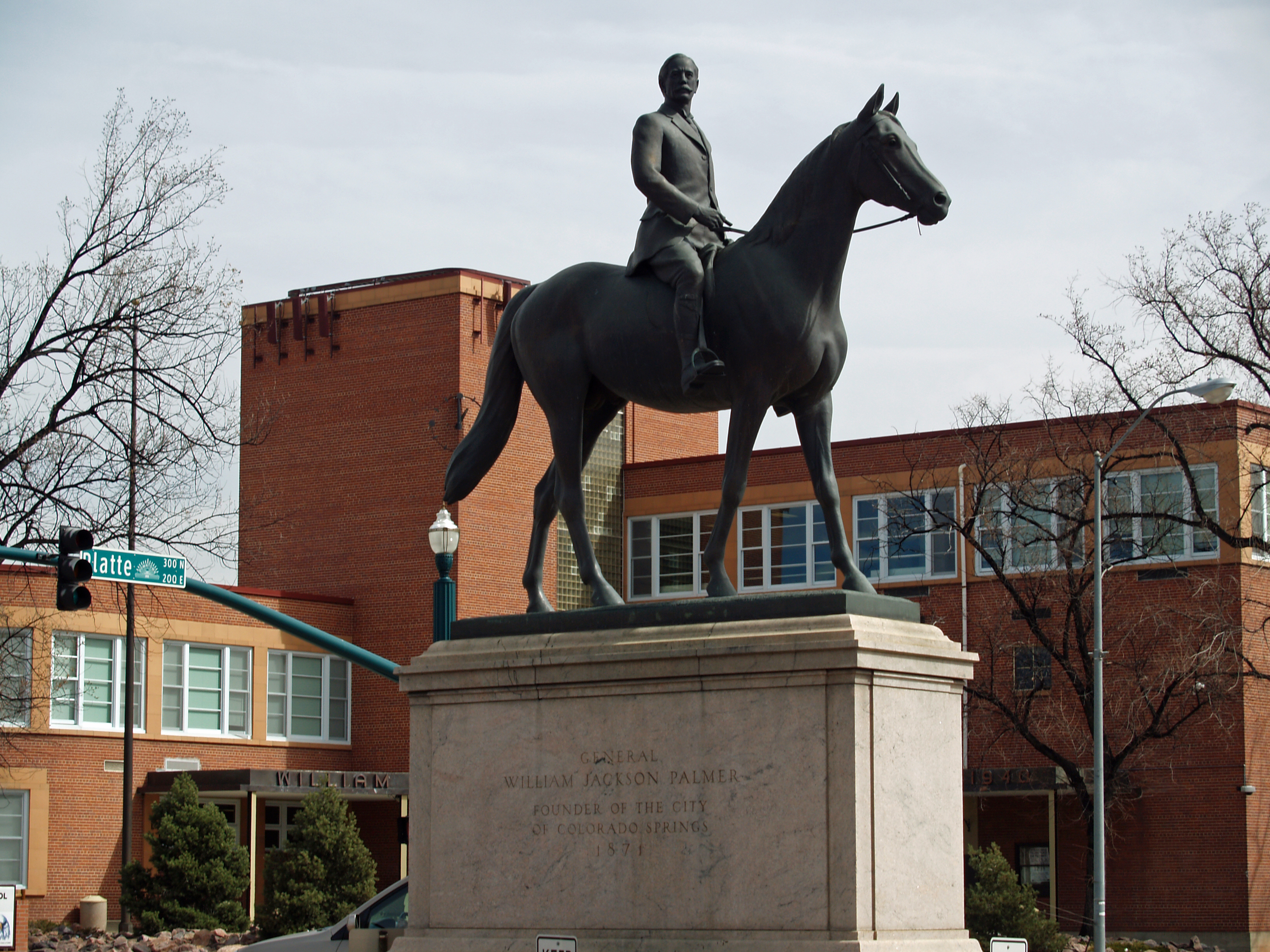 Colorado Springs, Colorado founder General William Palmer in front of Palmer High School. Sculptor:Nathan Dumont Potter, Commissioned 1924, Cast 1929.